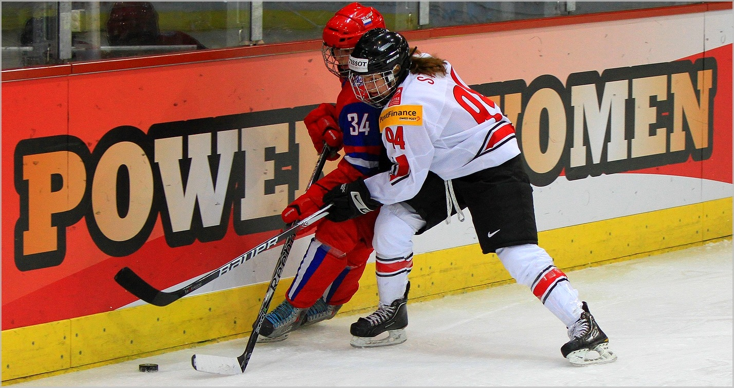 IIHF World Women Championship 2011. Quarterfinal Switzerland - Russia 4-5 OT